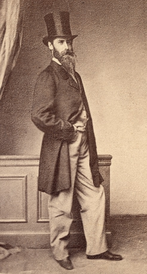 Mathias Weckström, Finnish collector and postal dispatcher.